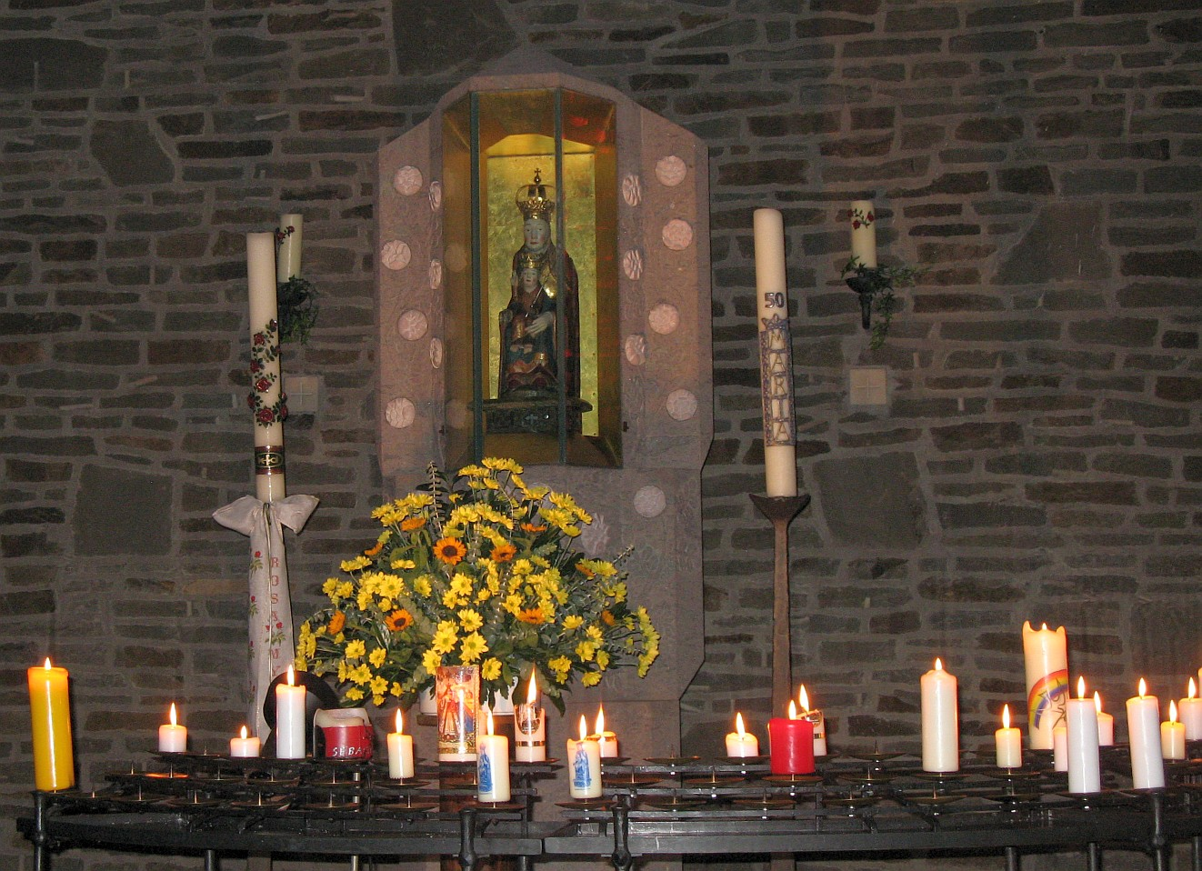 Statue of Mary as Rosa Mystica in the new parish and pilgrimage church St Catharina in Buschhoven near Bonn, Germany. The statue of the 12th century, that has been venerated since 1190, was relocated in 1806 from the nearby Premonstratensian abbey Schillingskapellen after German mediatisation to the former parish church St Catharina.